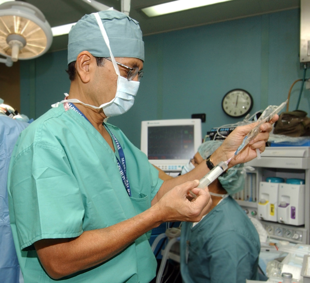 Indian Ocean (Apr. 19, 2005) - Dr. Akshay Dalal an anesthesiologist from the non-governmental organization "Project HOPE", provides medication for an Indonesian patient as the medical team aboard the Military Sealift Command (MSC) hospital ship USNS Mercy (T-AH 19) performs surgery. Mercy has 12 operating rooms and has performed over 100 surgeries since arriving on station in Nias, Indonesia. At the request of the government of Indonesia, the Military Sealift Command (MSC) hospital ship USNS Mercy (T-AH 19) and the MSC combat stores ship USNS Niagara Falls (T-AFS 3) are on station off the coast of Nias, providing assistance as determined appropriate and necessary with earthquake disaster relief efforts and provide medical assistance to those in need. U.S. Navy photo by Photographer's Mate 2nd Class Jeffrey Russell (RELEASED)